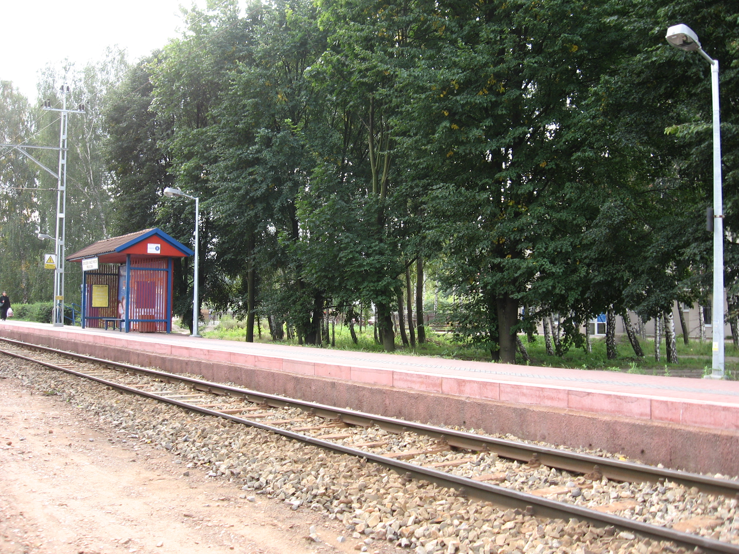 Grodzisk Mazowiecki Piaskowa commuter train stop owned by Warsaw Commuter Rail (WKD).